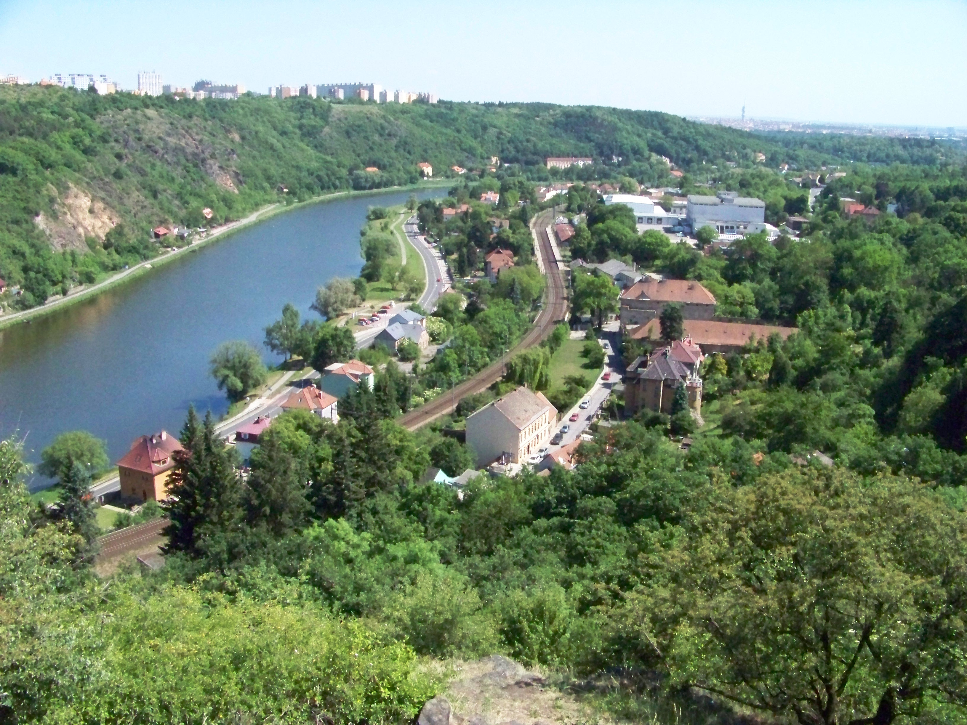 Prague-Sedlec, the Czech Republic. Sedlec Rocks, a view point.